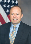 Dr. Jack Smith, the Acting Deputy Assistant Secretary of Defense for Clinical and Program Policy.